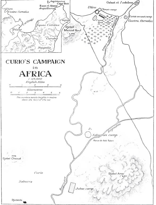 Map outlining Curio's African Campaign of 49 BC